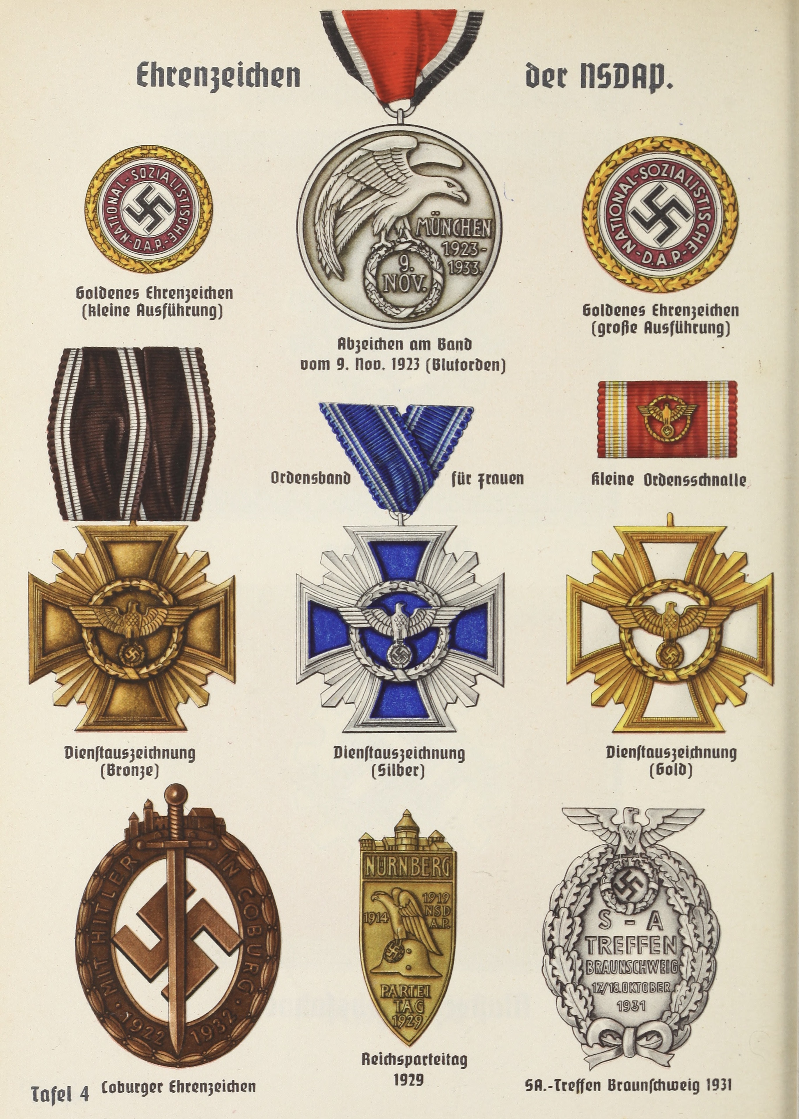 ORGANISATIONSBUCH DER NSDAP 1943: Tafel 4 Ehrenzeichen der NSDAP. Goldenes Ehrenzeichen (kleine Ausfürhung) (Golden Party Badge, small version 24 mm for wearing on a suit jacket); Abzeichen am Band vom 9. Nov. 1923 (Blutorden) (Blood Order); Goldenes Abzeichen (große Ausführung) (Golden Party Badge, big version 30.5 mm for wearing on service uniforms) Dienstauszeichnung (Bronze, Silber und Gold) (Nazi Party Long Service Award); Ordensband für Frauen (ribbon for women); Kleine Ordenschnalle (small medal ribbon) Coburger Ehrenzeichen (Coburg Badge); Reichsparteitag 1929 (Nuremberg Party Day Badge); SA.-Treffen Braunschweig 1931 (Brunswick Rally Badge) Color plate showing emblems, badges, political decorations, etc of the Nationalsozialistische Deutsche Arbeiterpartei (NSDAP, National Socialist German Workers' Party) in Nazi Germany. Cropped page copied from Organisationsbuch der NSDAP by Reichsorganisationsleiter Robert Ley (1890 – 1945) published 1943 ("Herausgeber: Robert Ley"; "7 Auflage: 301-400 Tausend"). Publisher : Zentralverlag der NSDAP, Franz Eher Nachf., München. 856 pages. 596 (ie 750) p: ill, maps, ports, plates; 22 cm; German language. Letters in Fraktur style typefaces. Legal disclaimer This image shows (or resembles) a symbol that was used by the National Socialist (NSDAP/Nazi) government of Germany or an organization closely associated to it, or another party which has been banned by the Federal Constitutional Court of Germany. The use of insignia of organizations that have been banned in Germany (like the Nazi swastika or the arrow cross) are also illegal in Austria, Hungary, Poland, Czech Republic, France, Brazil, Israel, Ukraine, Russia and other countries, depending on context. In Germany, the applicable law is paragraph 86a of the criminal code (StGB), in Poland – Art. 256 of the criminal code (Dz.U. 1997 nr 88 poz. 553).